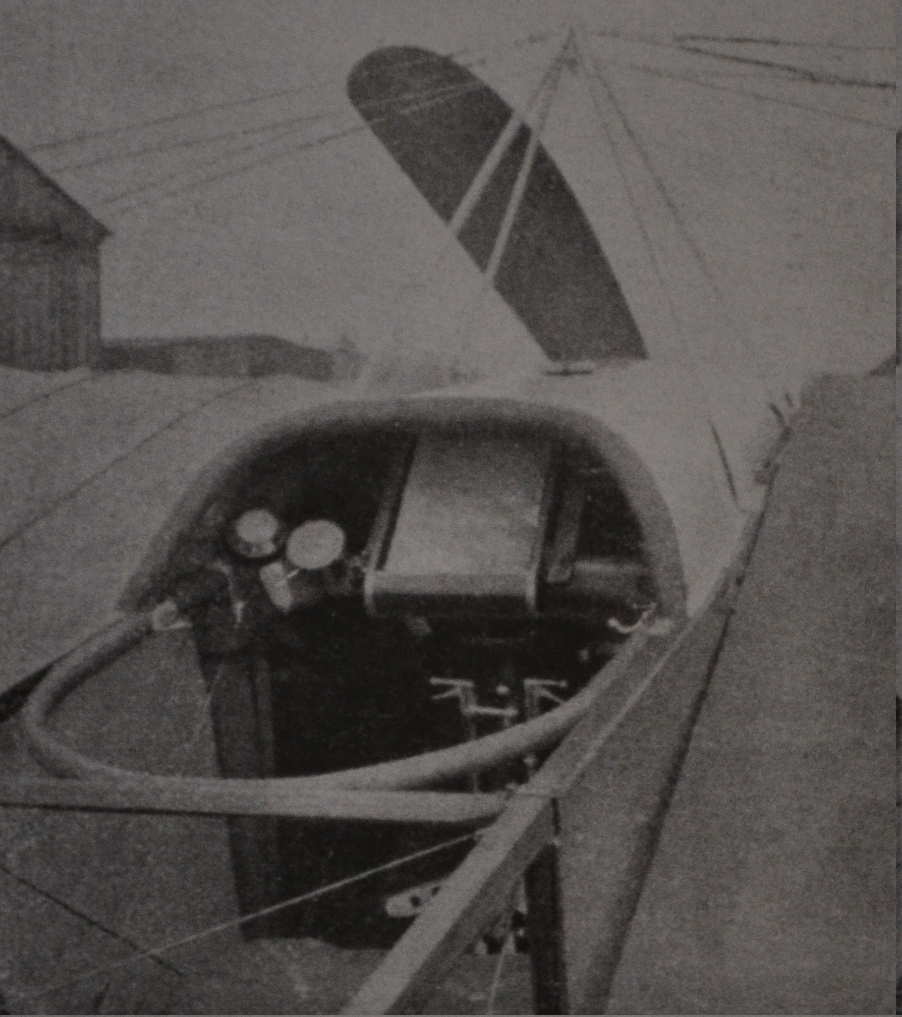 A detail of the cockpit of Italian experimental monoplane Caproni Ca.11.